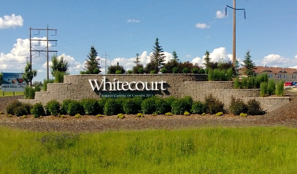 Town of Whitecourt's entrance feature at the intersection of Highway 43 and 33 Street